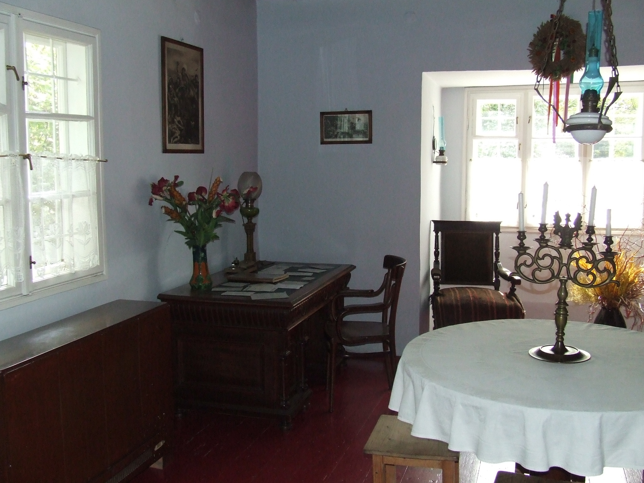 Lucjan Rydel house